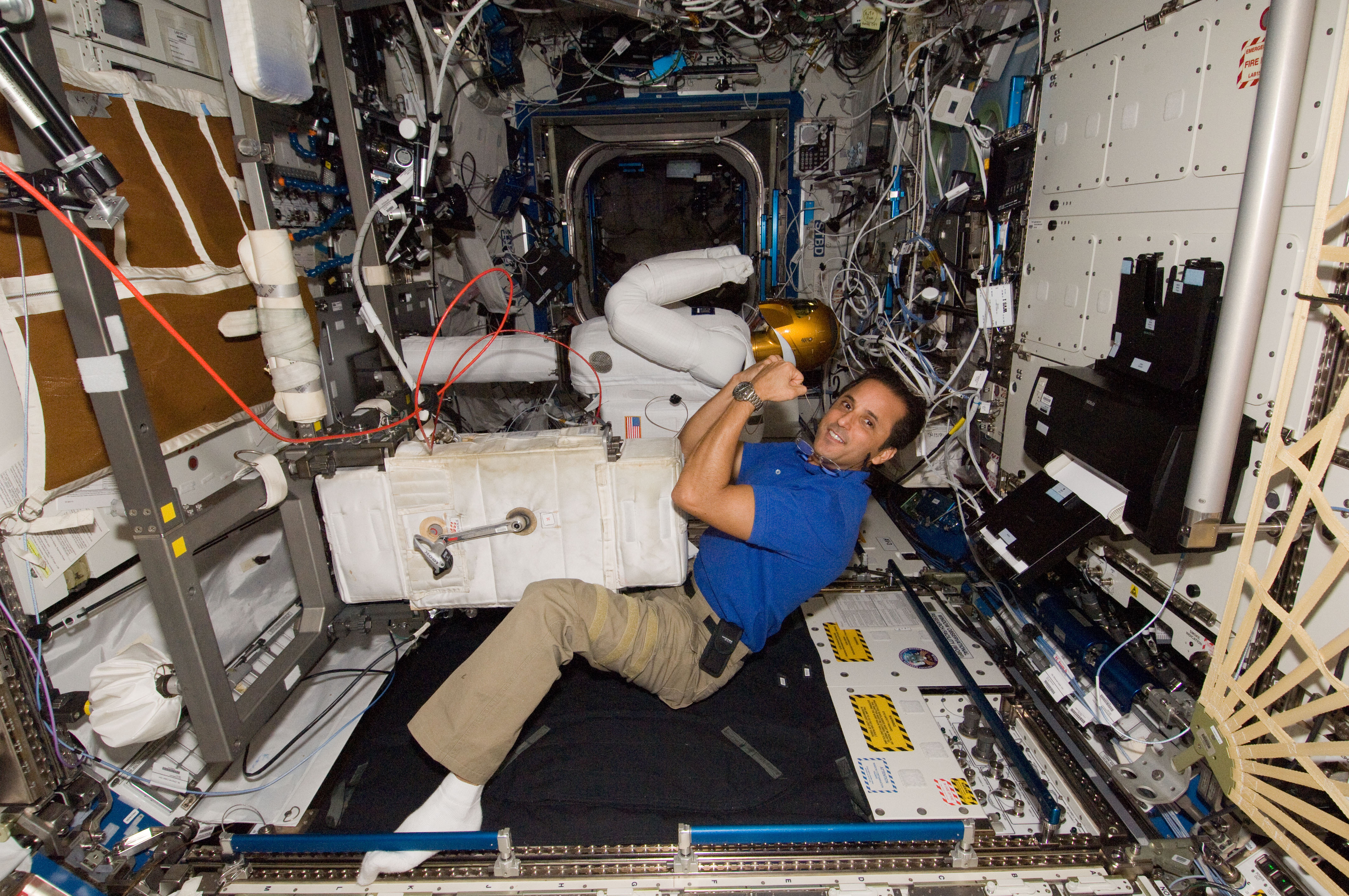 NASA astronaut Joe Acaba, Expedition 31 flight engineer, poses for a photo with Robonaut 2 humanoid robot in the Destiny laboratory of the International Space Station.